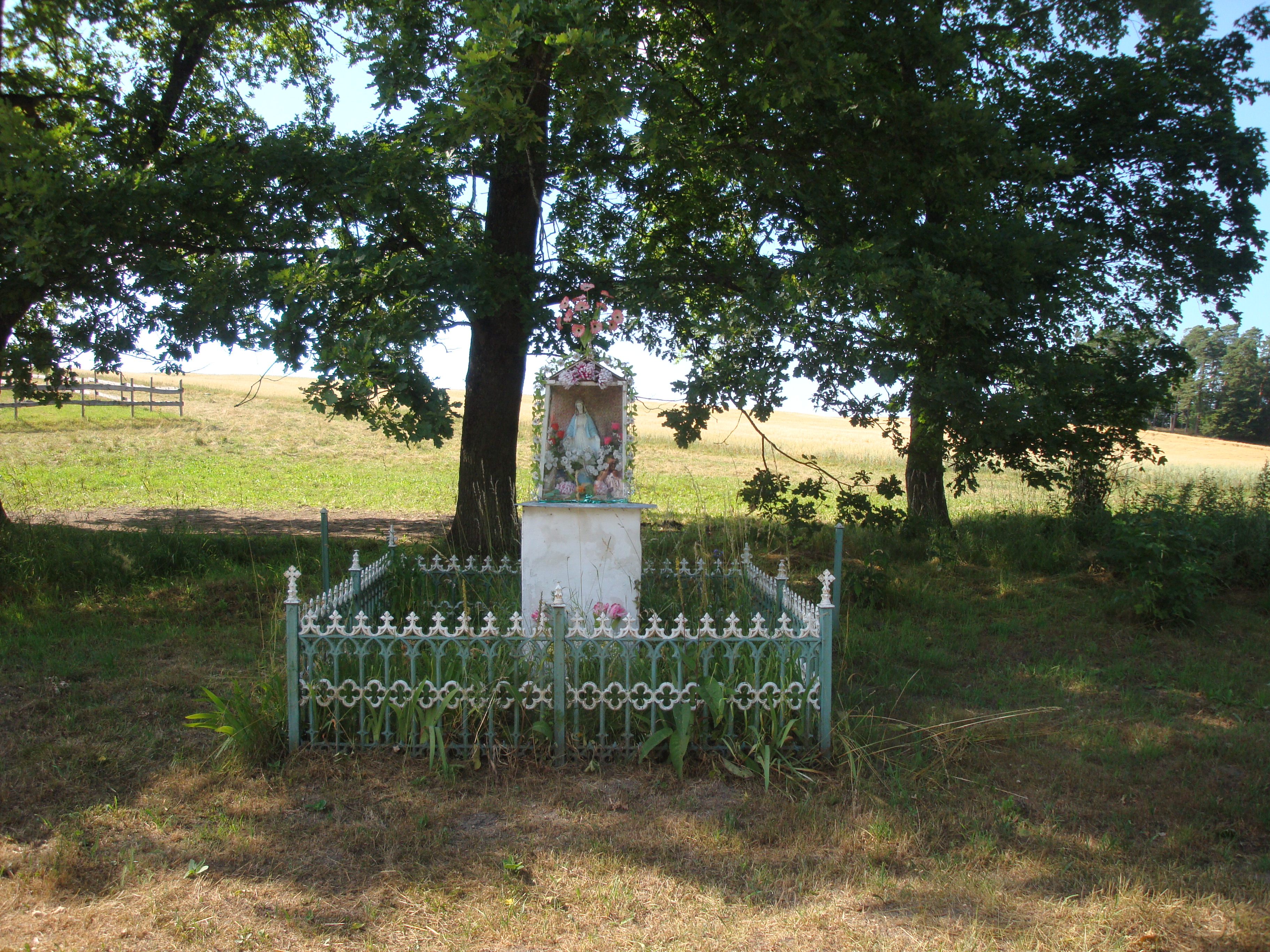 Lipno-village in Pomeranian Voivodeship, Poland